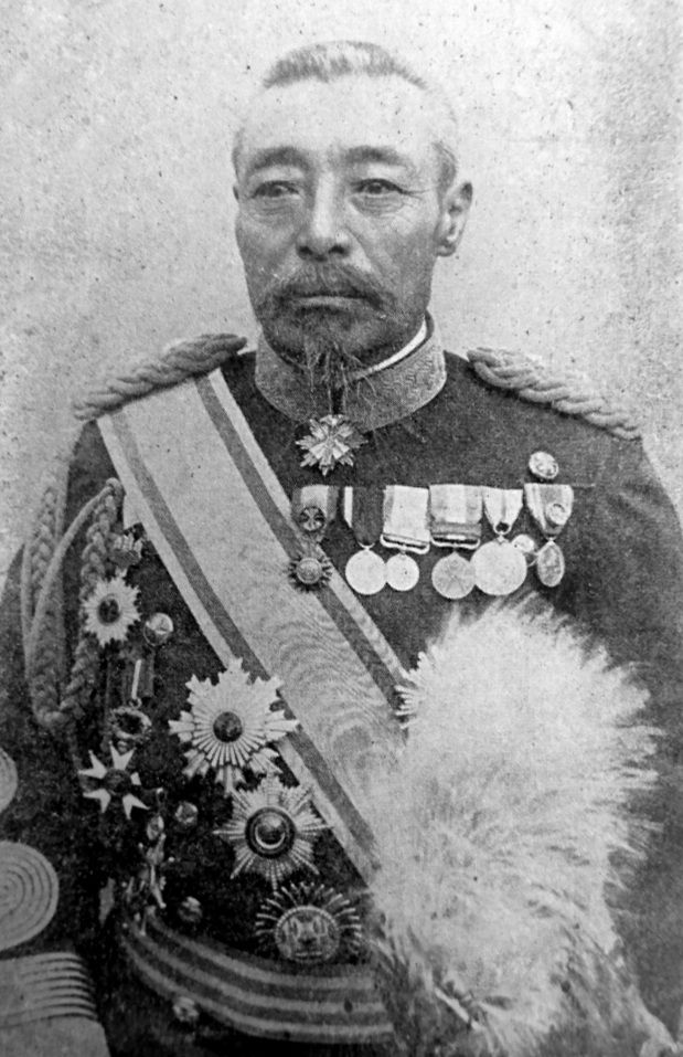 Japanese Baron (Oku Yasukata) (1847–1930) was a Field Marshall of the Imperial Japanese Army.